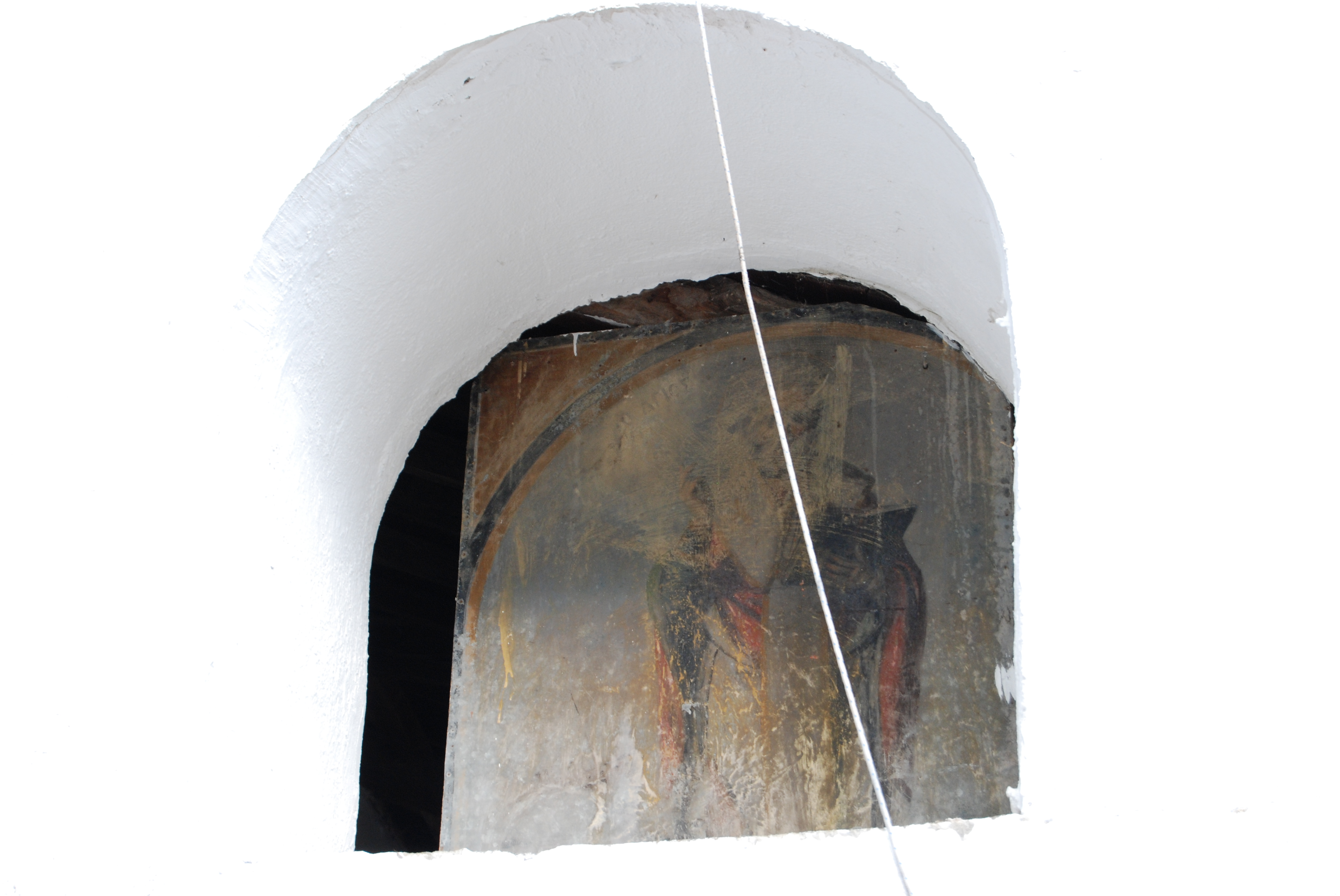 Saint Nicholas of Dragotas Church